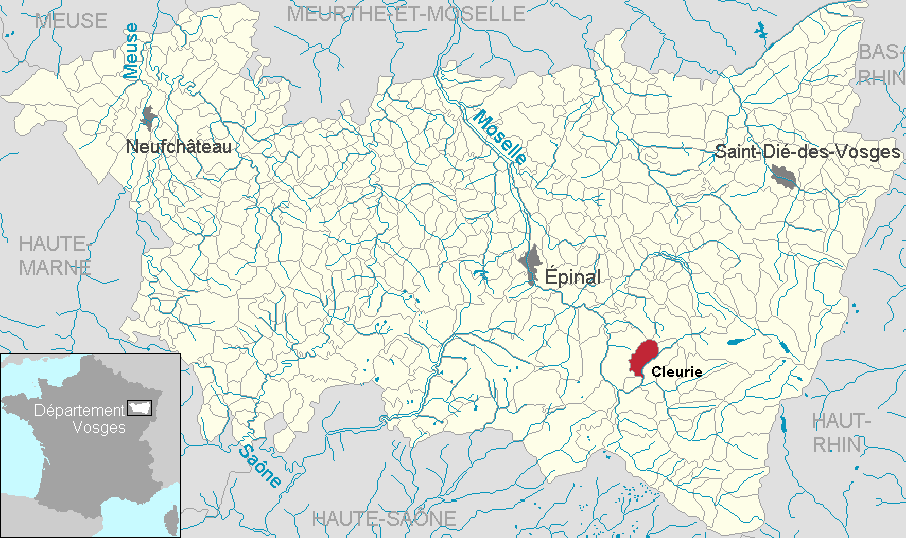 Cleurie in the department of Vosges, Lorraine, France